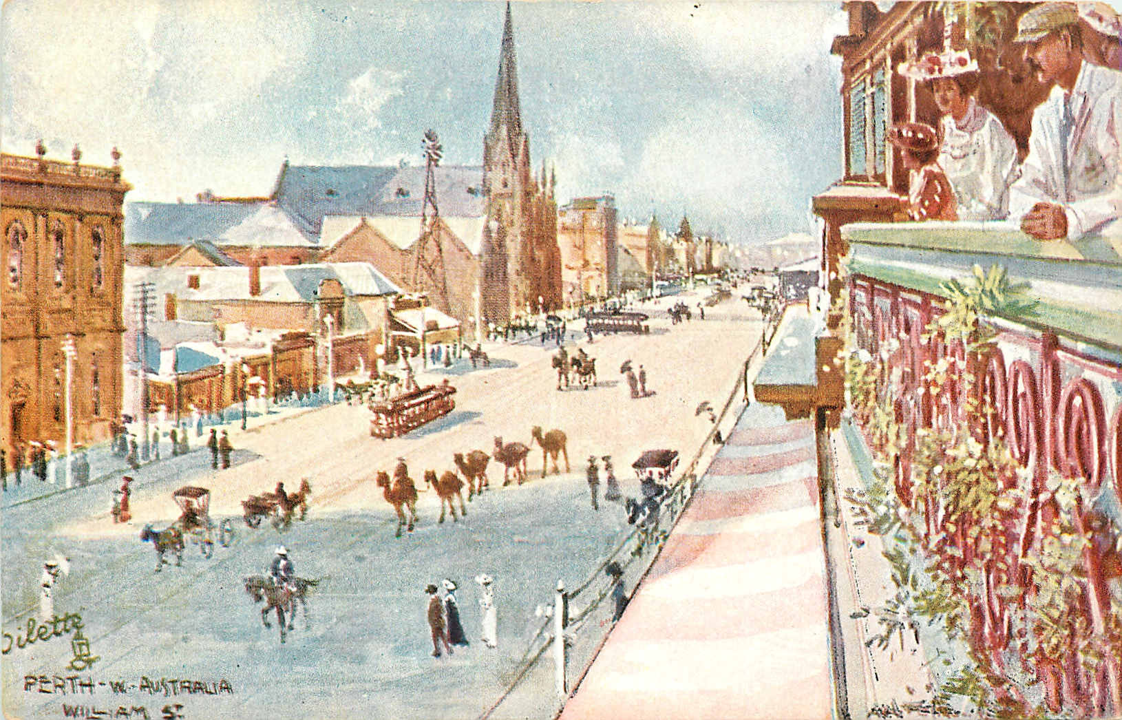 Tucks Oilette postcard 1911/1912